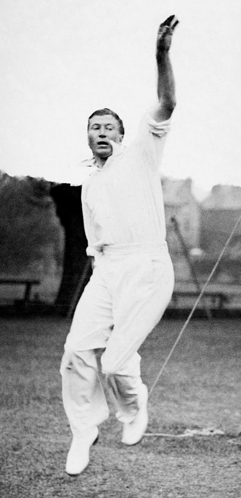 Sandy Bell a member of the South Africa cricket team which toured England in 1935 South Africa won the Test series 1-0 with four draws, their first series win in England.